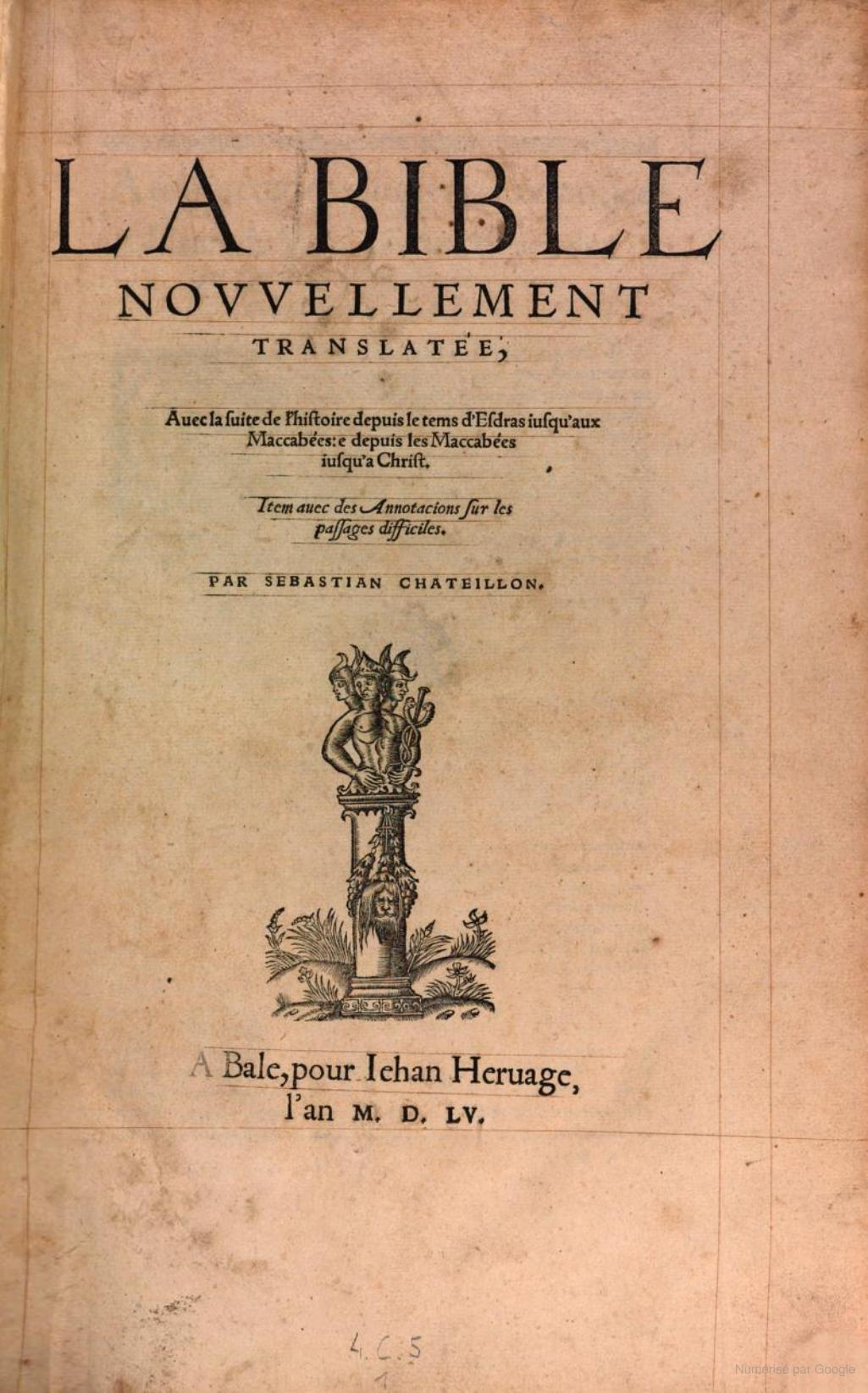 Bible de Castellion, 1555 (French)